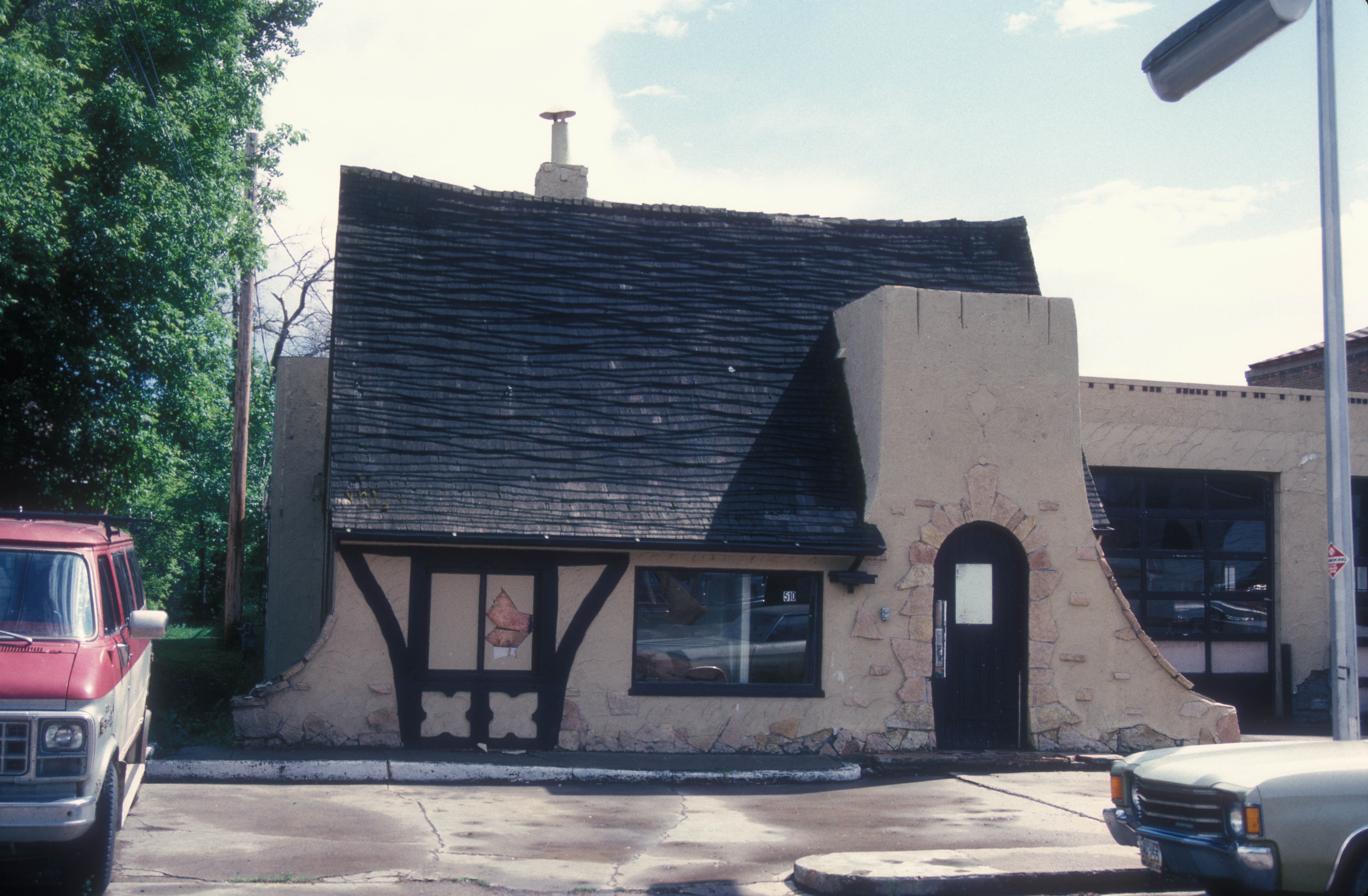 BUILT 1929 IN THE SO-CALLED DOMESTIC STYLE THAT SUGGESTED ASSOCIATION WITH HOME AND FAMILY